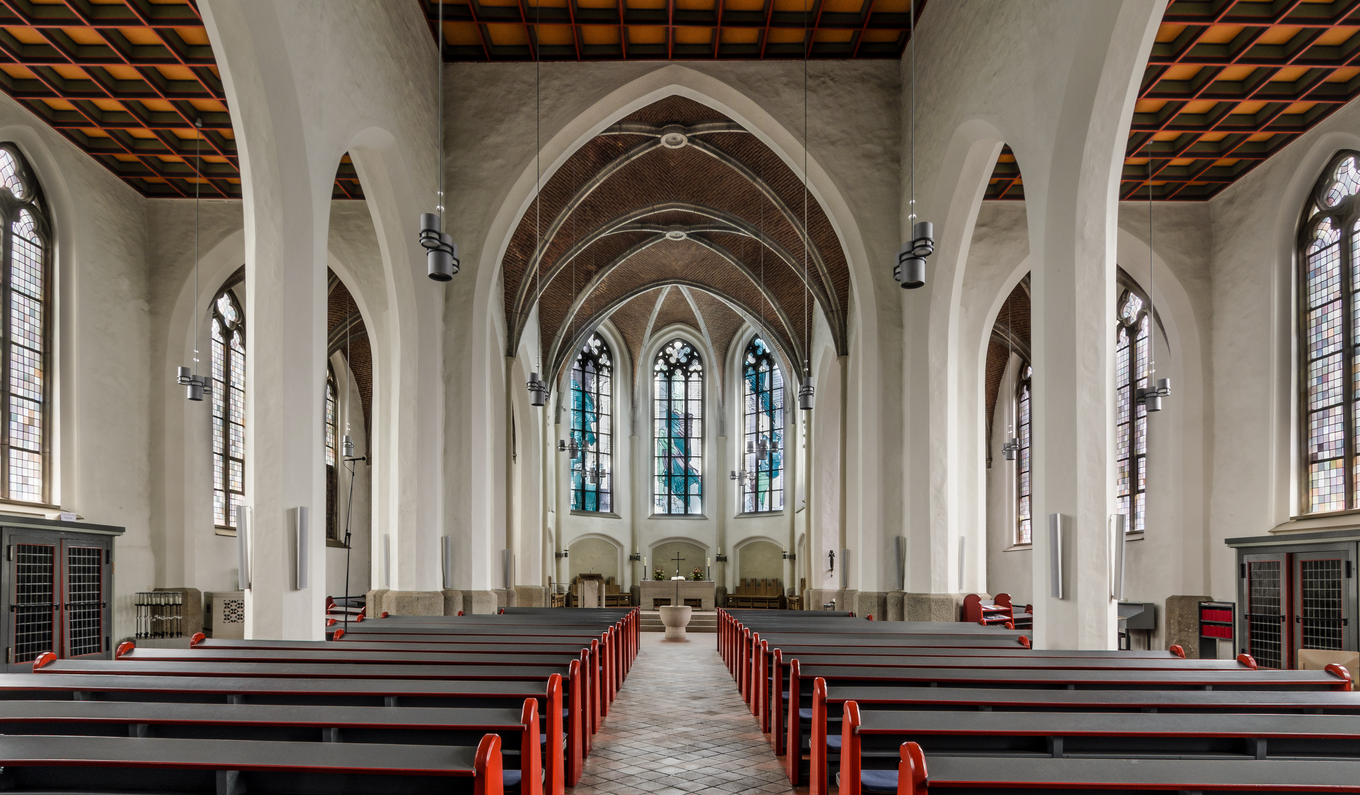 Interior of church "Petrikirche" in Mülheim an der Ruhr directed to the altar.